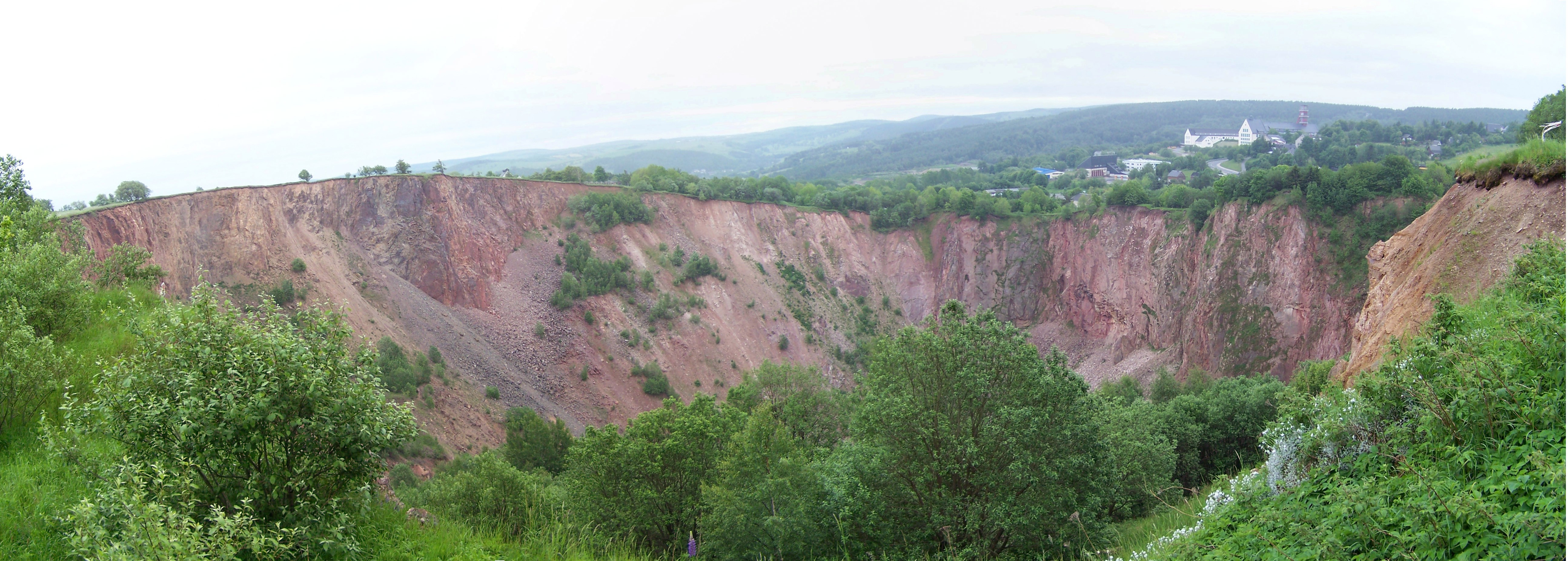 Panoramic view across the Pinge of Altenberg (Erzgebirge) with the city in the background